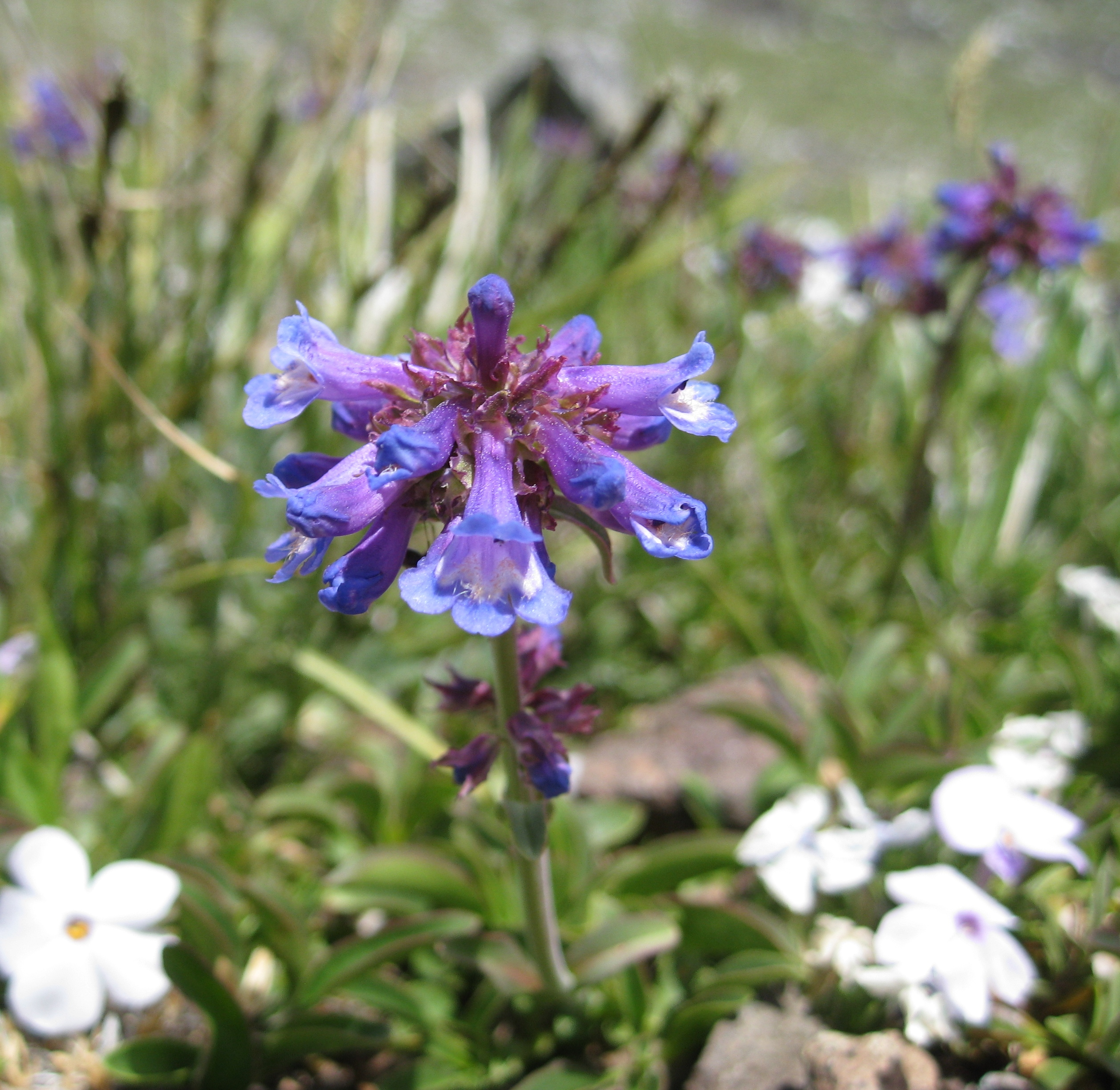 Penstemon procerus Plantaginaceae (formerly Scrophulariaceae) Small-leaved penstemon, tiny-bloom penstemon near South Summit, Mount Townsend, Elevation ~1910 meters, ~6280 feet Jefferson County, Washington, USA 130